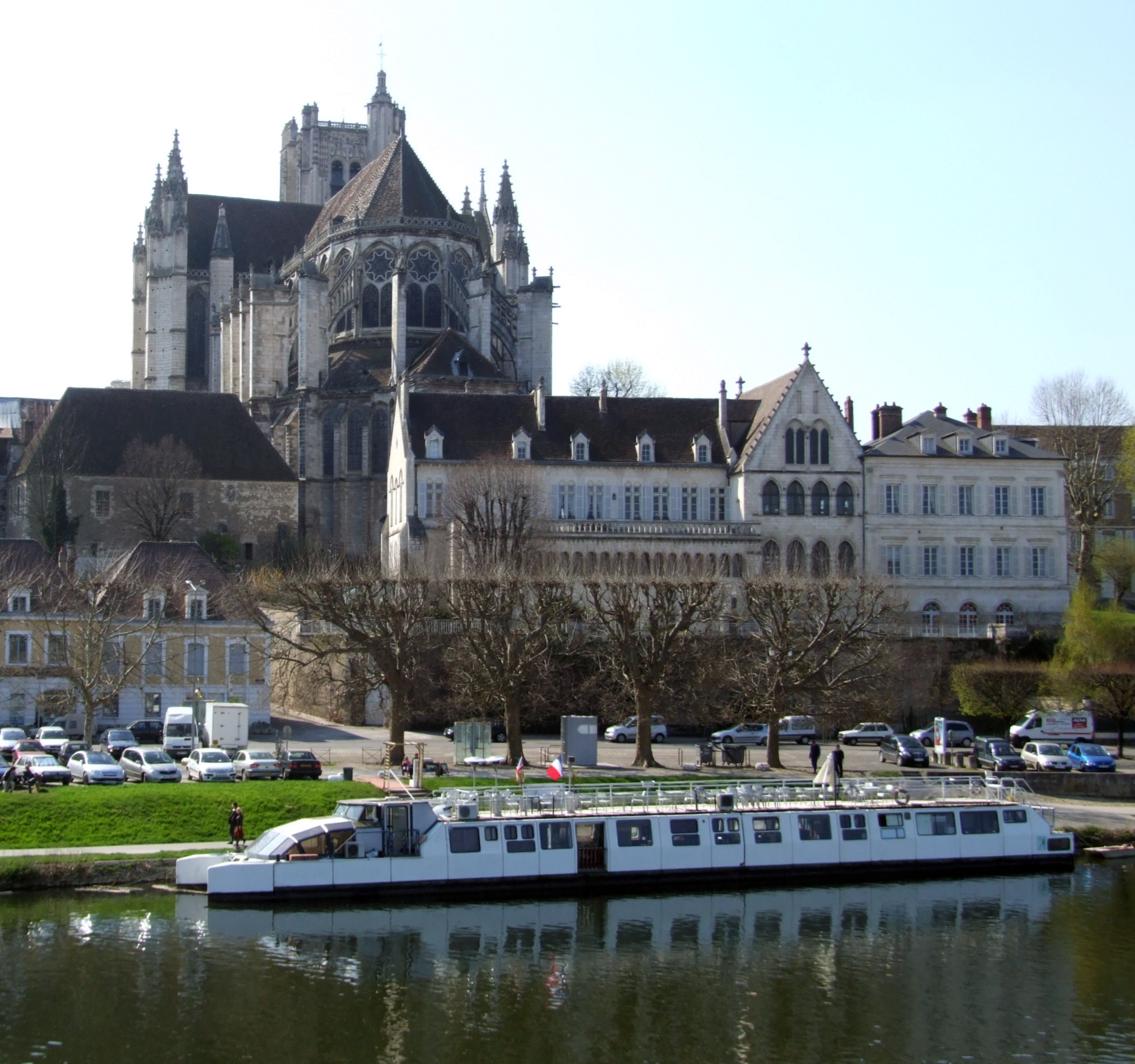 Saint-Etienne cathedral, Auxerre, Burgundy, France, seen from the right bank of the river Yonne. In front of the cathedral, slightly on the right of the photo, is the old bishop palace (now the siege of the Yonne departement' prefecture) : in the center, the 12th century "salle capitulaire" or chapter room, with a cross on top of each two gables ; on its left and built at the same time, the bishop's lodgings with its much admired roman gallery that runs from end to end ; on its right there used to be a finely crafted chapel dedicated to St-Nicolas, built by Guy de Mello (bishop 1247-1269) ; that chapel was destroyed by Dominique Séguier (bishop 1631-1637). The house that stands there now is roofed with slates ; the two older buildings have the traditional flat dark red roof tiles.